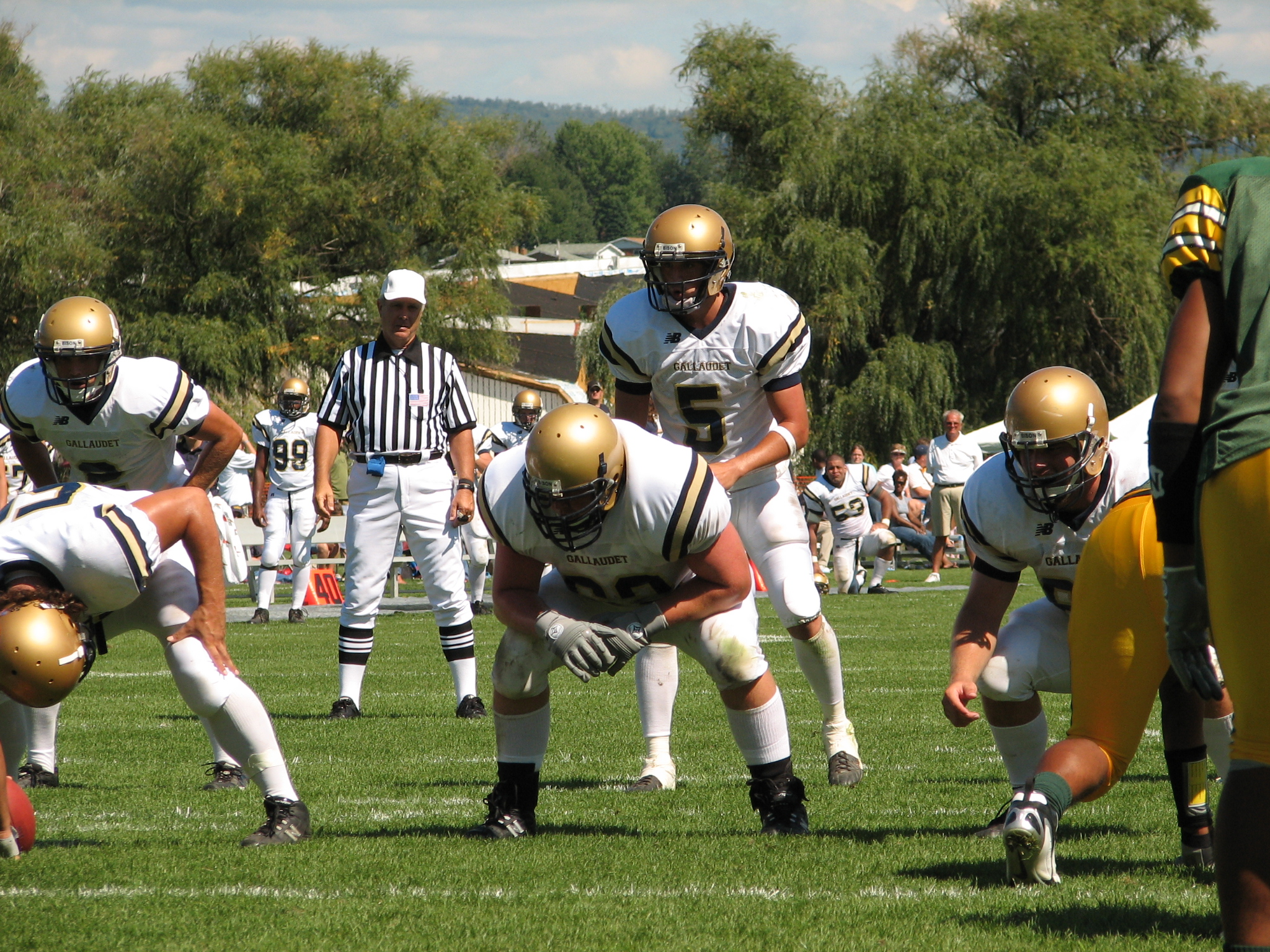 Gallaudet Bison defeated Saint Vincent College 32-13 in their first game of Division III season.